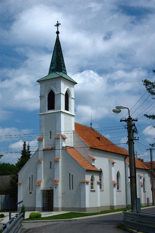 Church in Oreské